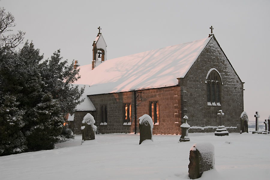 St.Oswalds Church, Heavenfield,Northumberland